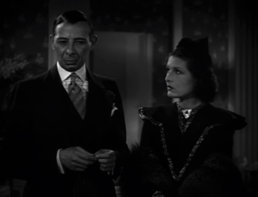 Lucien Prival and Evelyn Brent in Mr. Wong, Detective - cropped screenshot